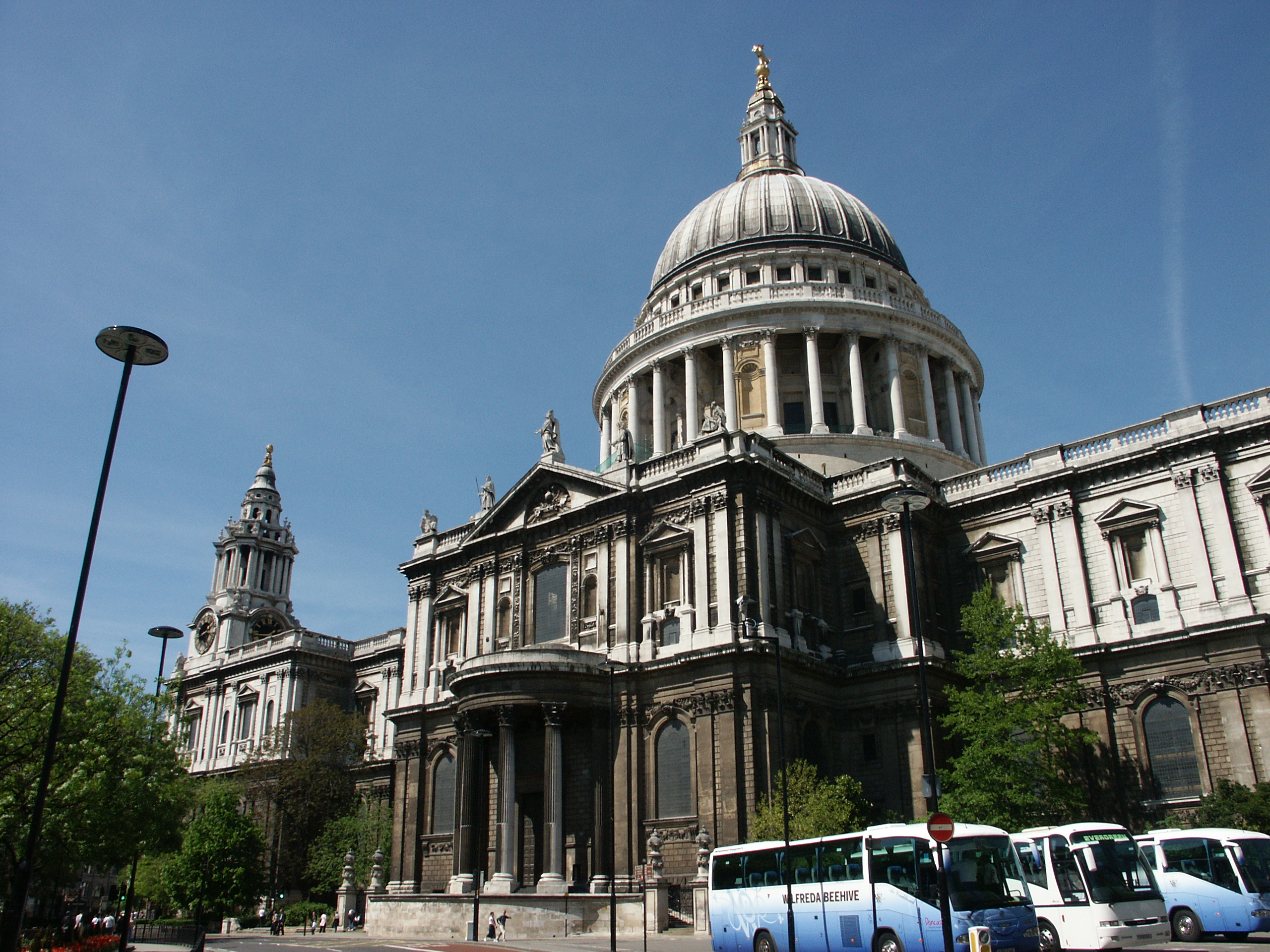 St. Paul's Cathedral